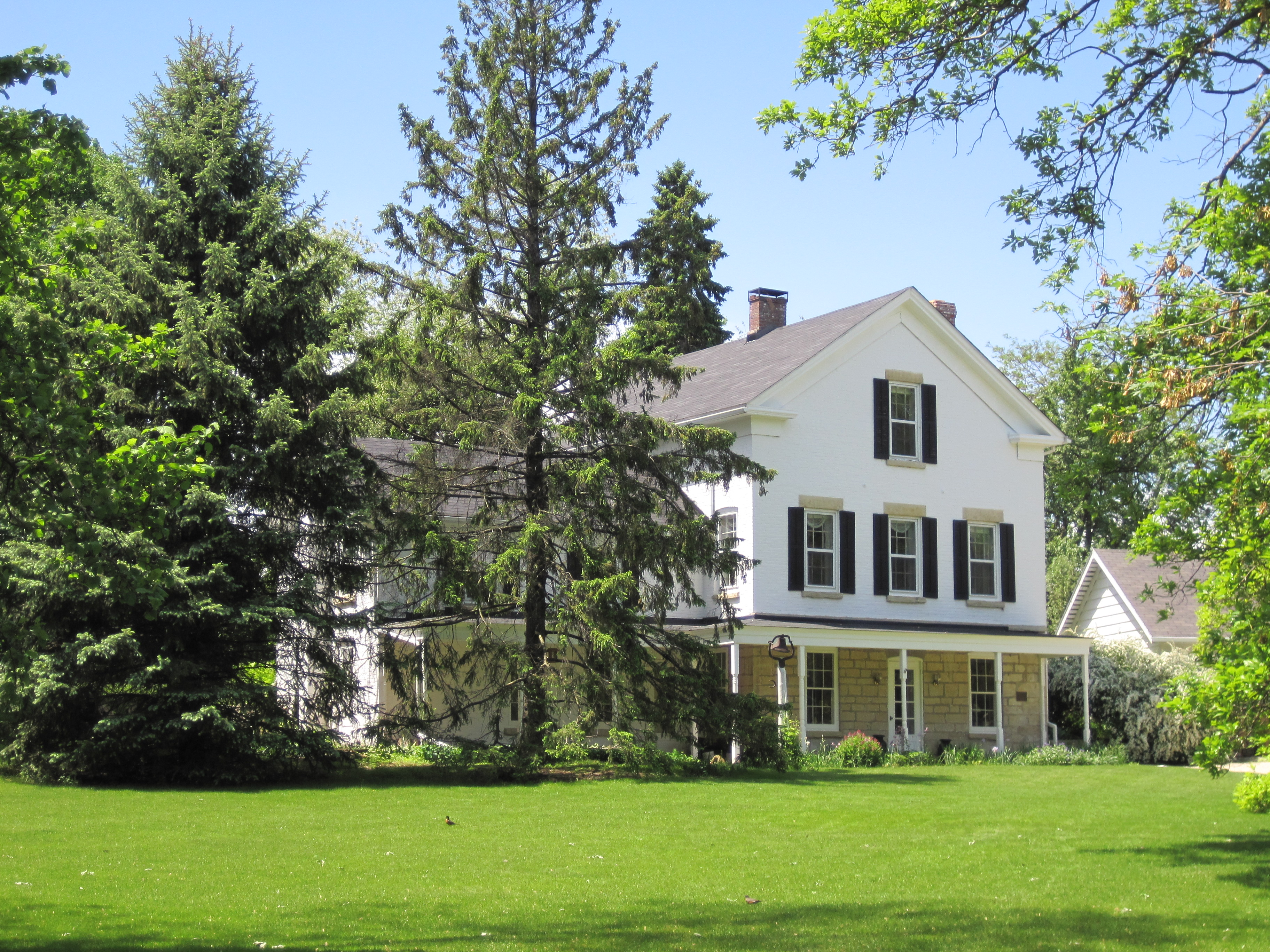 I (Teemu08 (talk)) took this image on May 27, 2011.